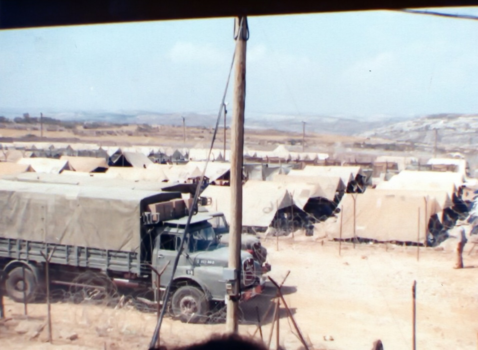 מחנה שבויים אנצאר בלבנון . התמונה צולמה על ידי סמי מועלם אוגוסט 1982